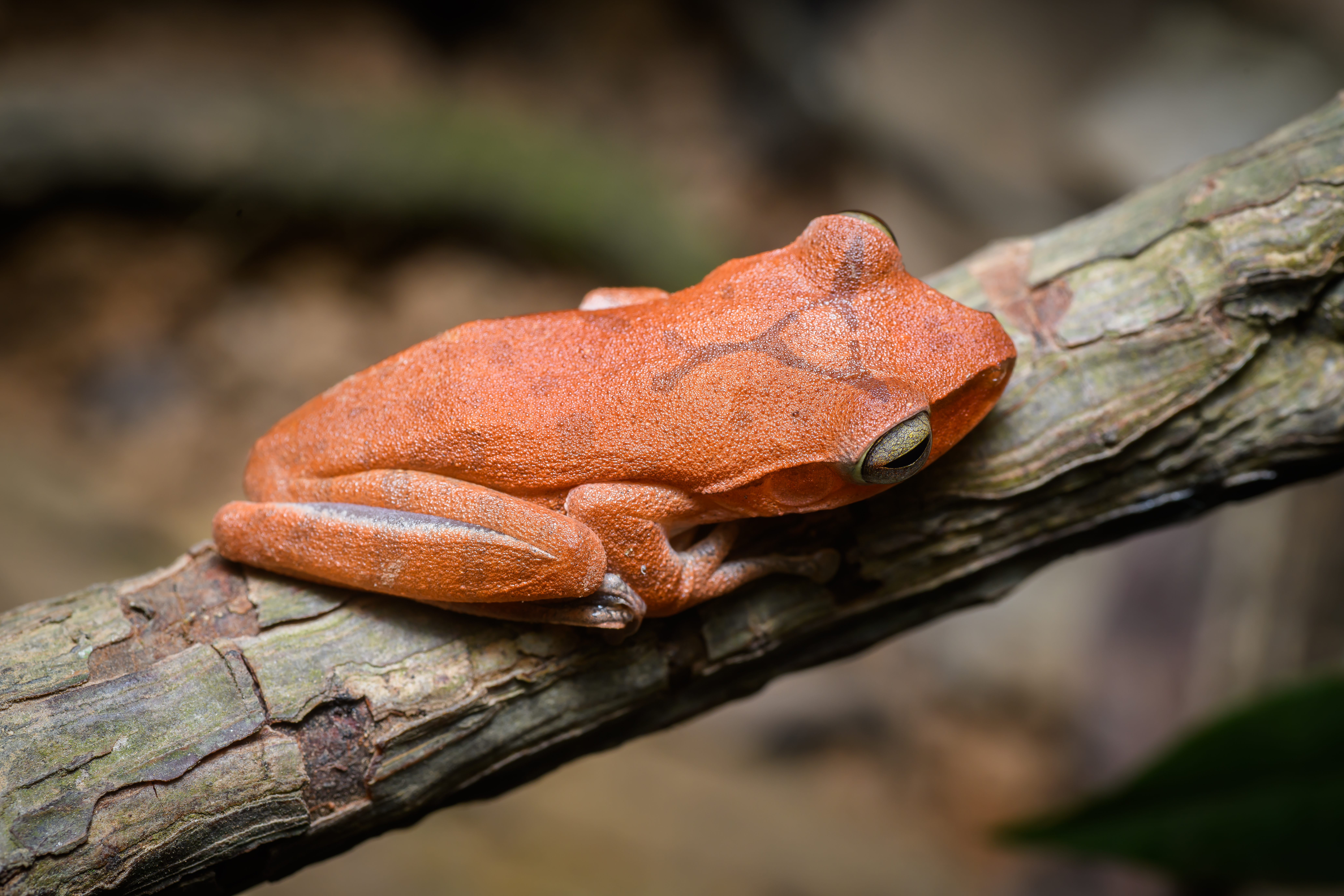 This photo is published under Creative Commons Attribution-Share-Alike Licence, means you are free to use this photo with attribution under same licence. For credits, please use following; Owner: Thai National Parks Link